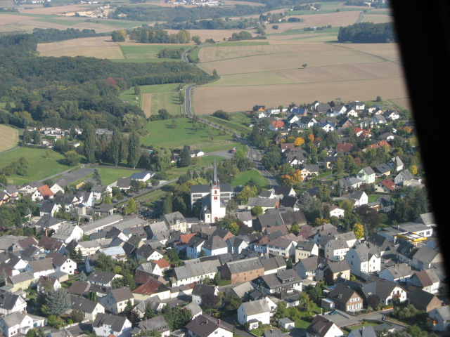 Aerial image of catholic church Saint Goar in Hundsangen/Germany.